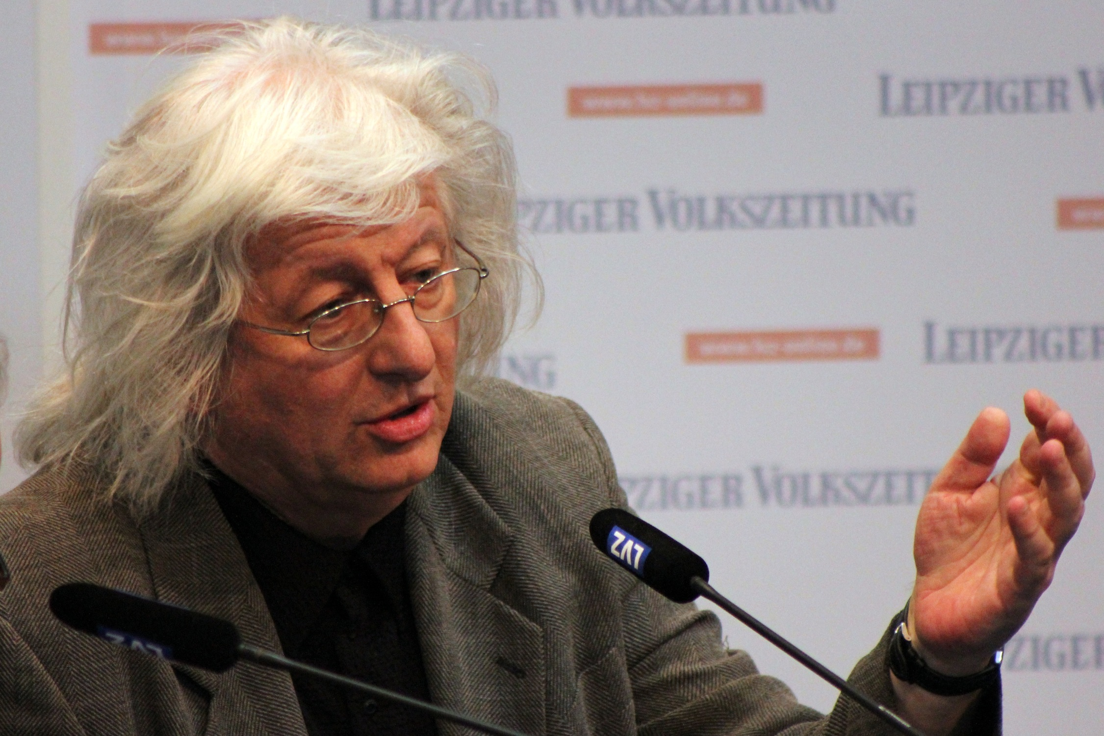 Péter Esterházy, Leipzig Book Fair 2013